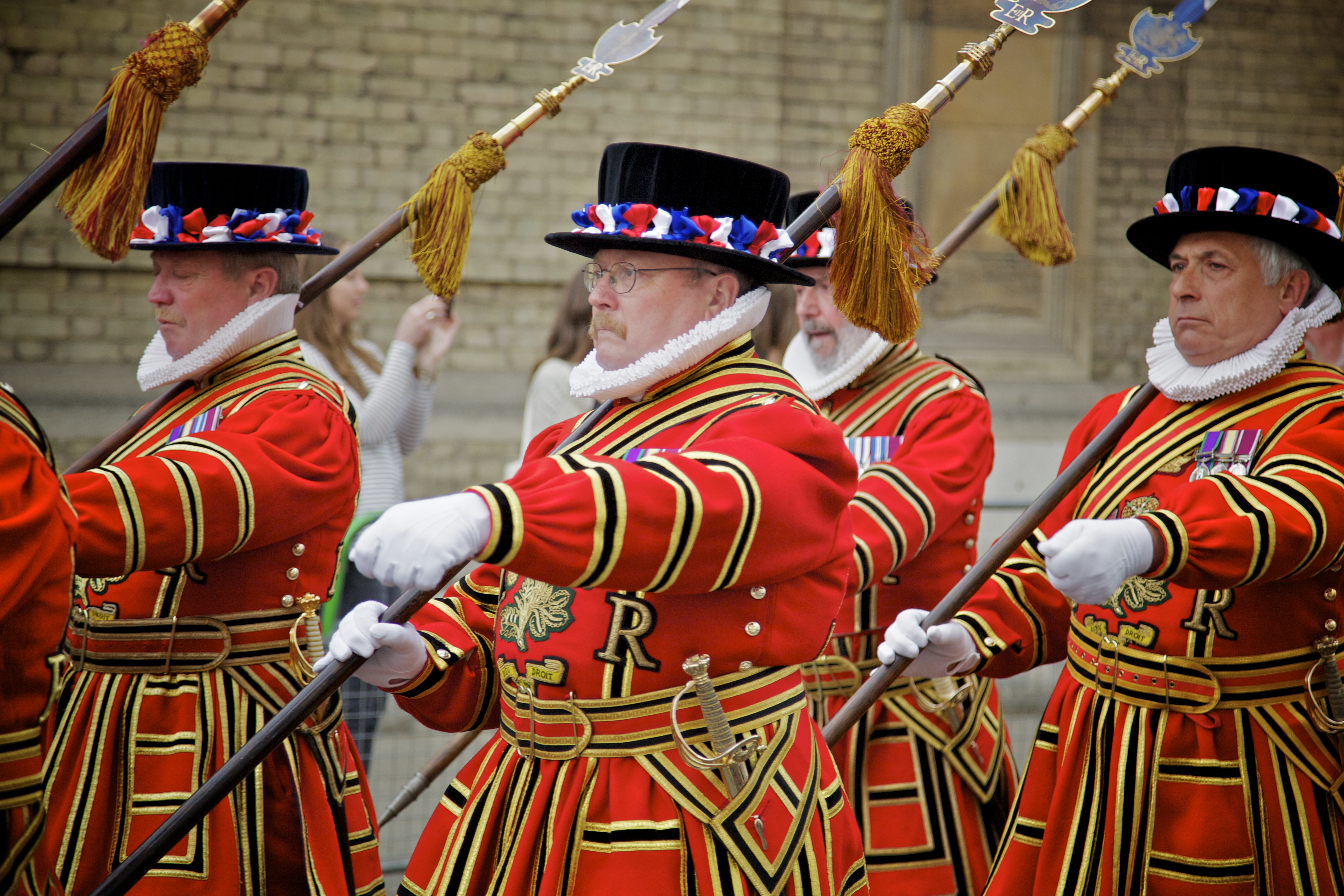 Wedding of Prince William of Wales and Kate Middleton